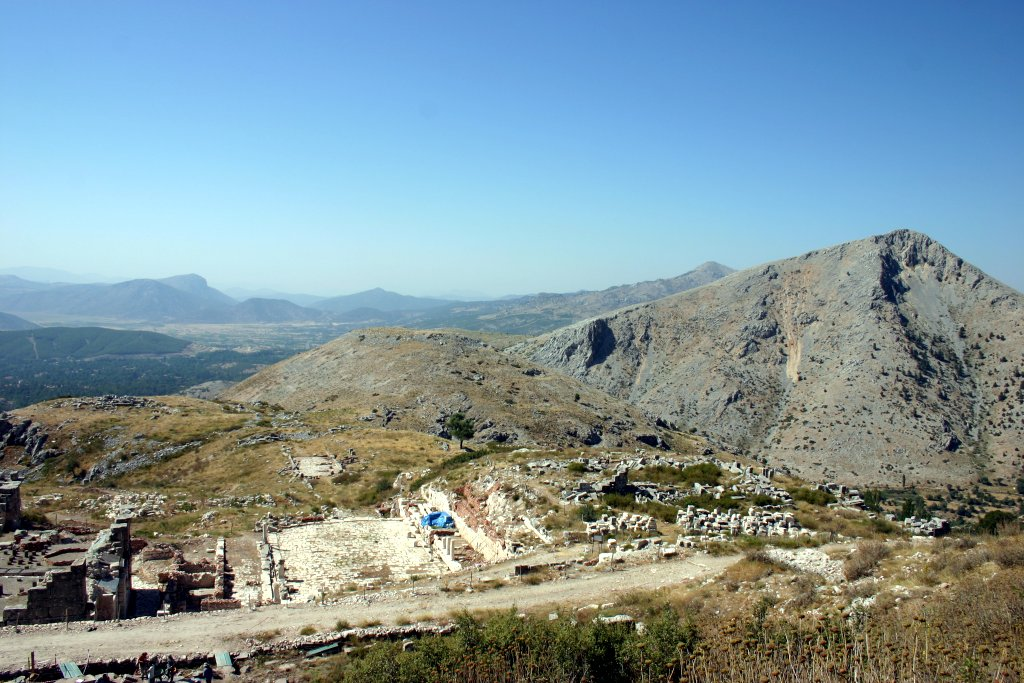 Sagalassos - Lower Agora (Tijl Vereenooghe, August 2005)